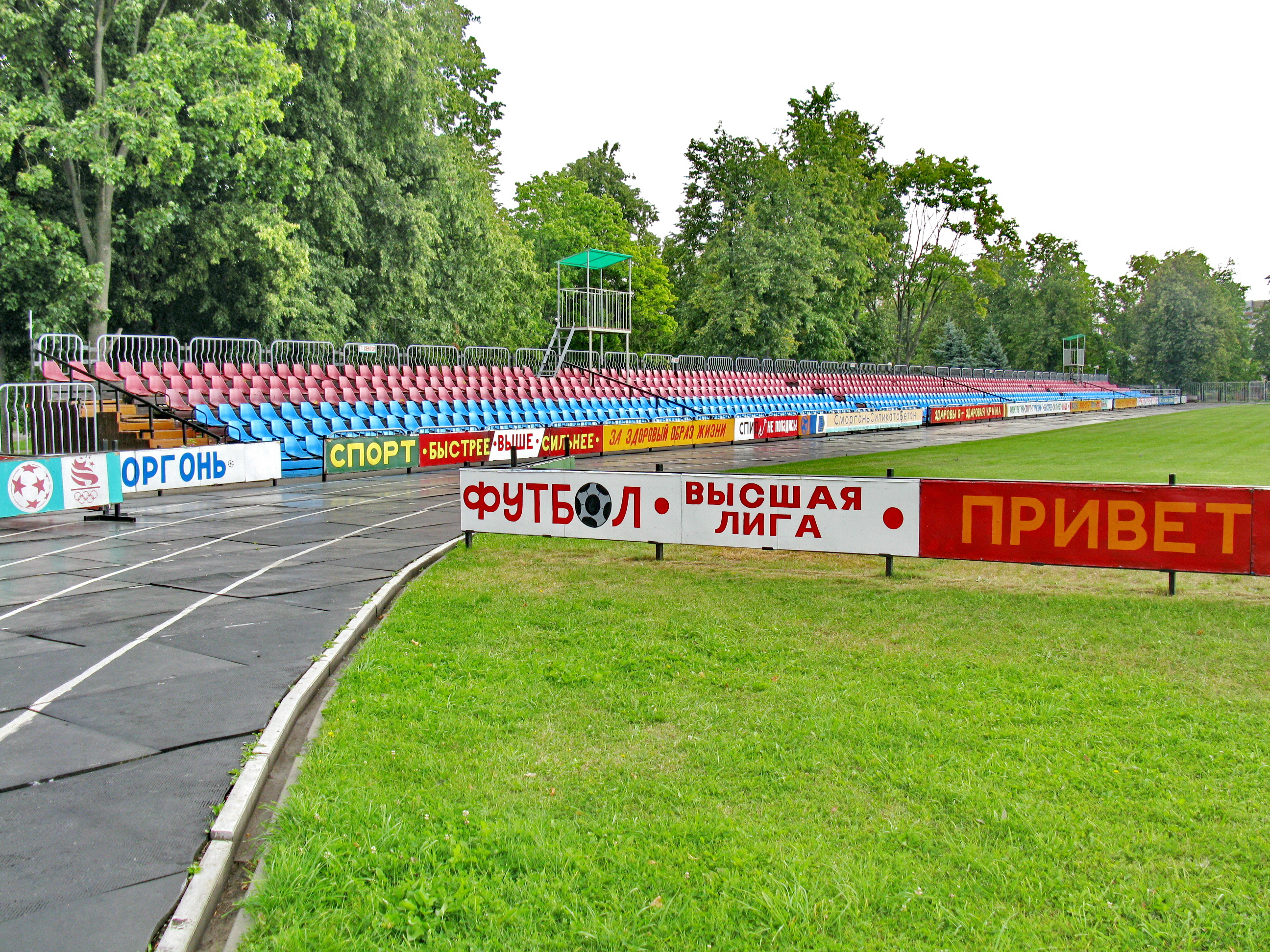 Smarhon stadium Yunatstva, Belarus